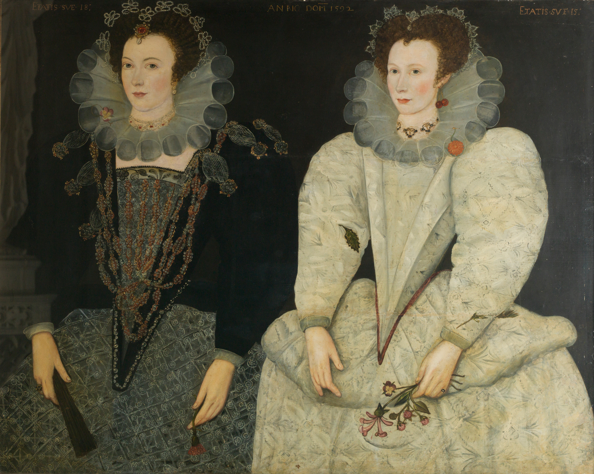 Double portrait by unknown artist of two sisters, Anne (Fitton) Newdigate (1574–1618) and Mary Fitton (c. 1578–1641) - See more at